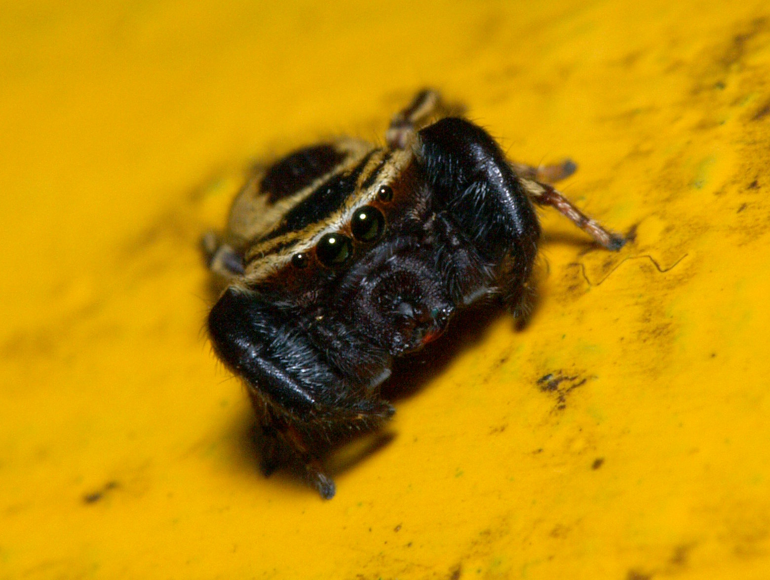 male Rhene flavicomans from a park in North Point, Hong Kong.